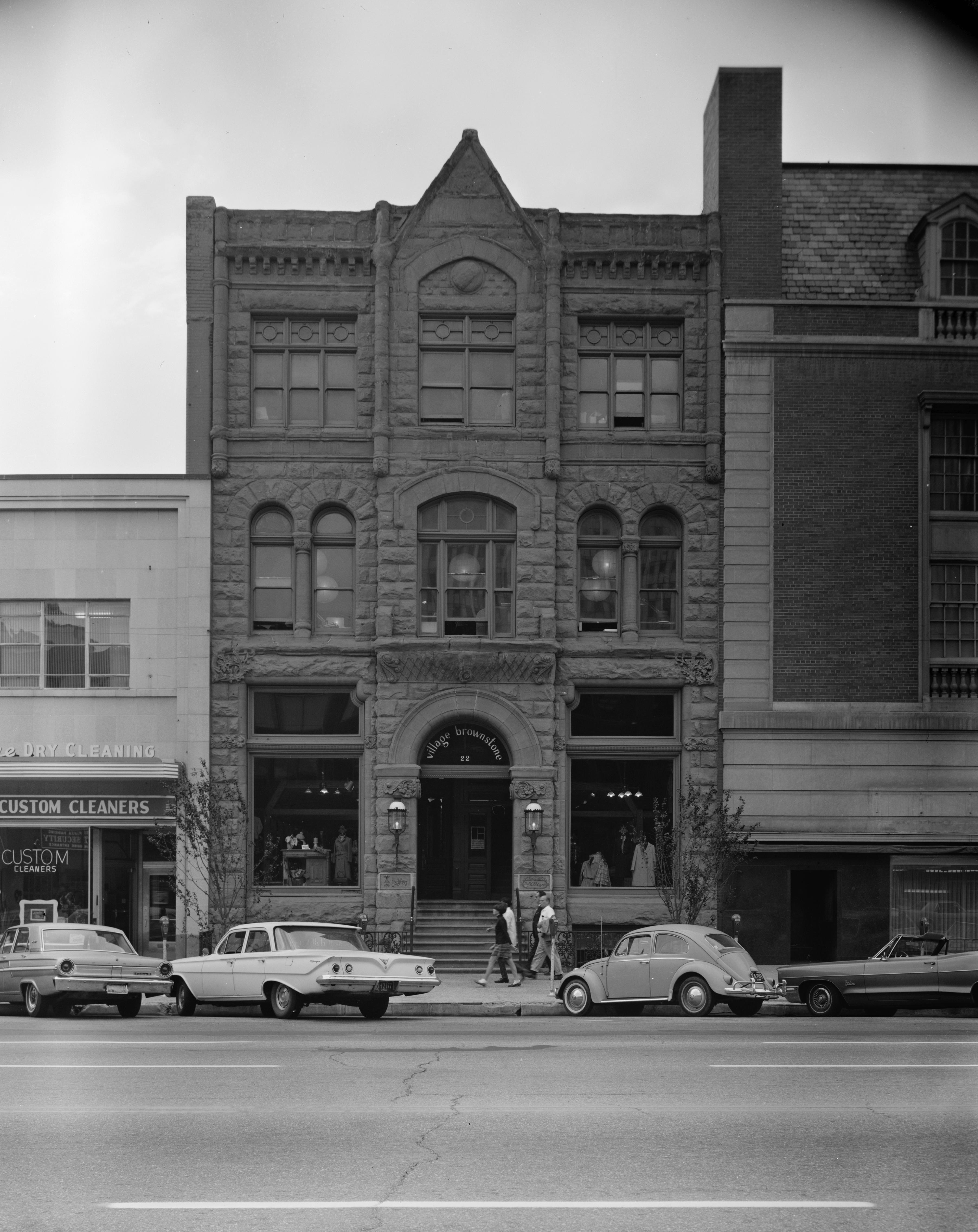 Front of the Utah Commercial and Savings Bank Building, located at 22 E. 100 South in Salt Lake City, Utah, United States. Built in 1888, it is listed on the National Register of Historic Places.